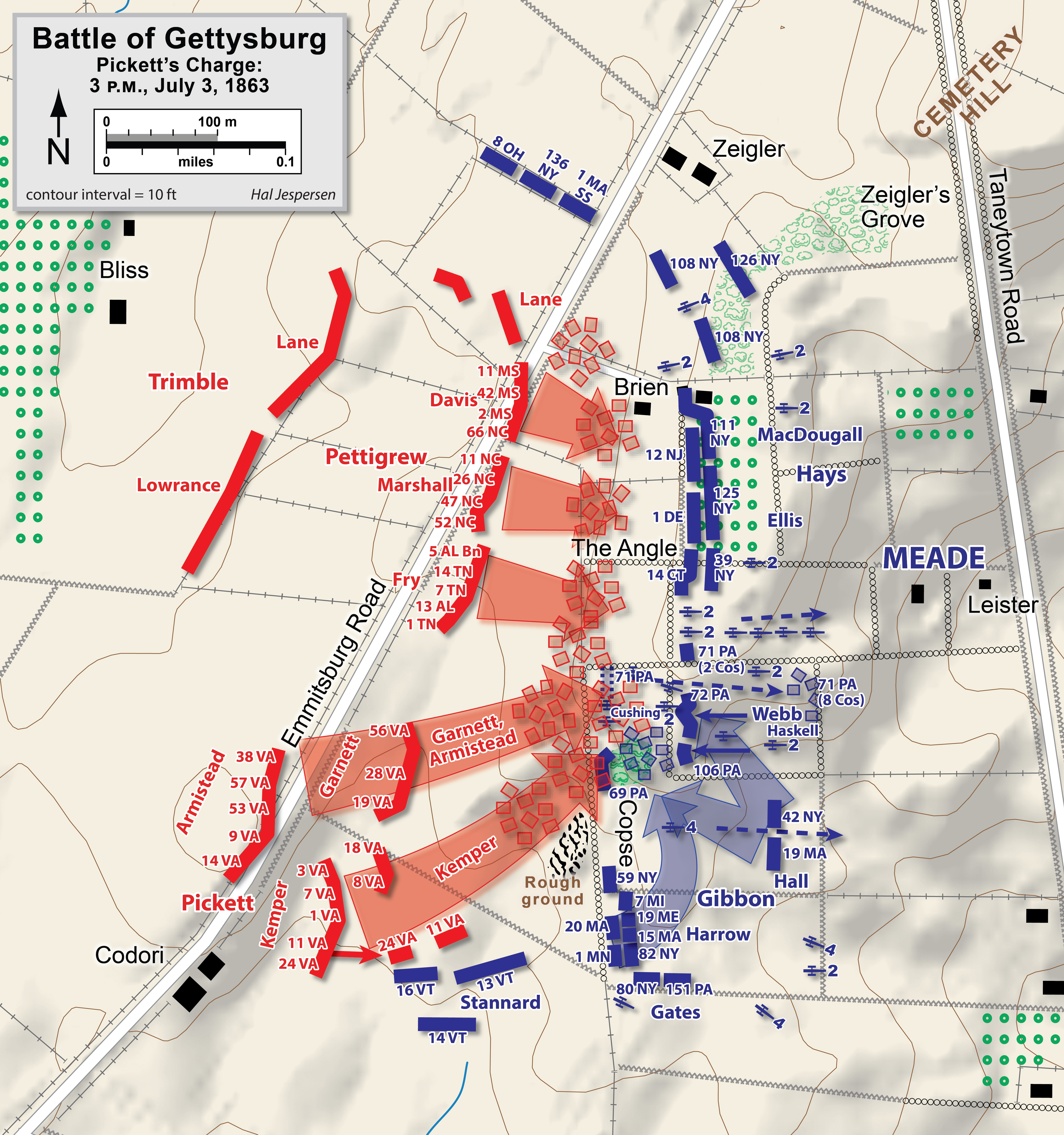 Pickett's Charge (detail) of the American Civil War. Drawn in Adobe Illustrator CS5 by Hal Jespersen. Graphic source file is available at